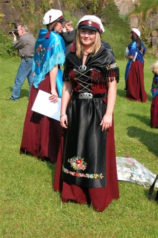 Student in the Faroe Islands in National costume